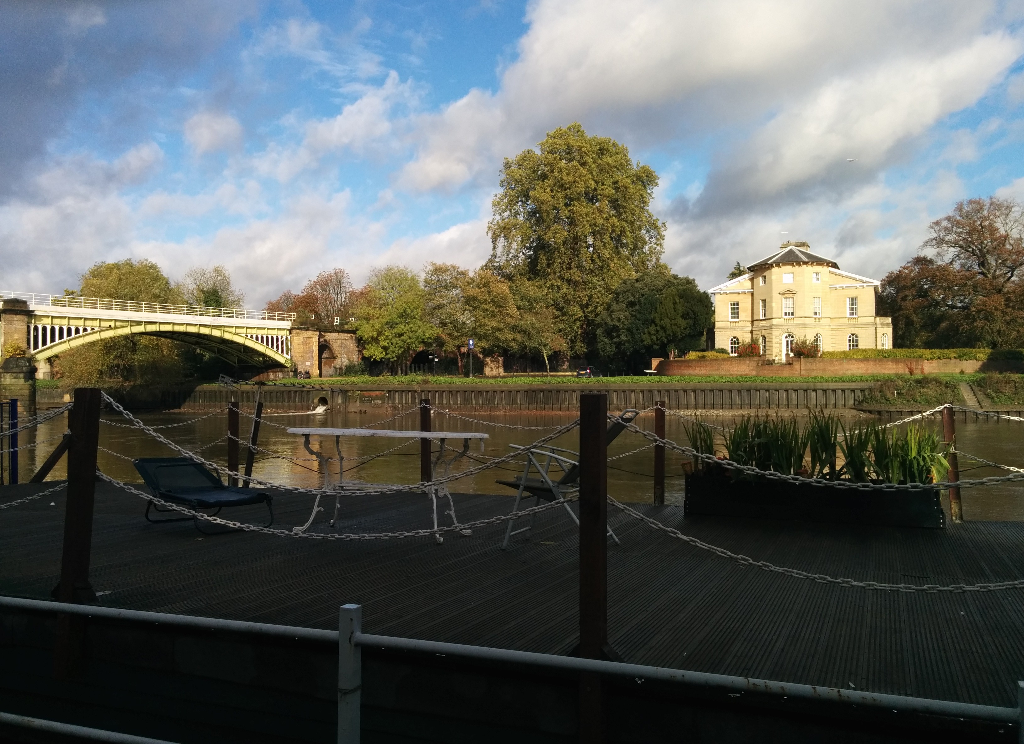 Thames Riverside picture including the Richmond Rail Bridge (1846) & Asgill House (1757)